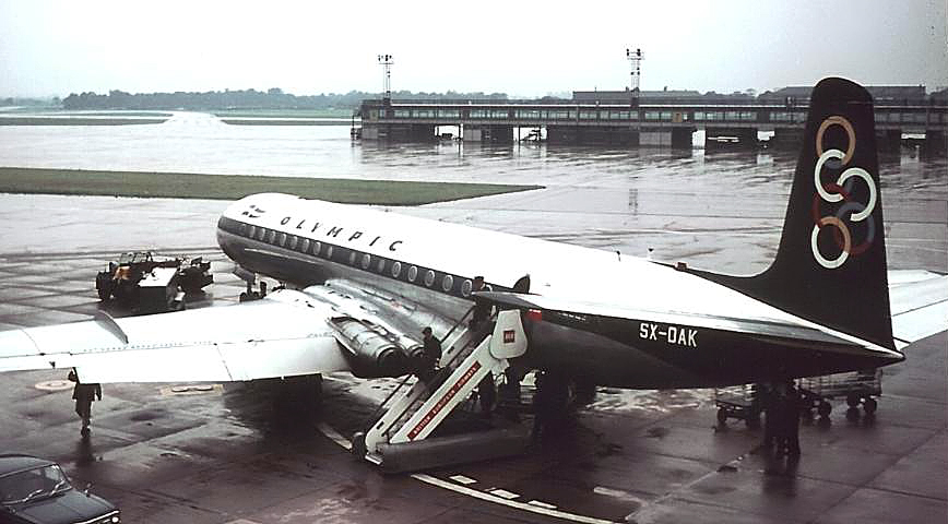 DH.106 Comet 4B of Olympic Airways at Manchester Airport